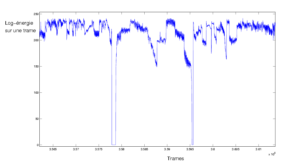 Energy on audio signal from a (french) TV stream